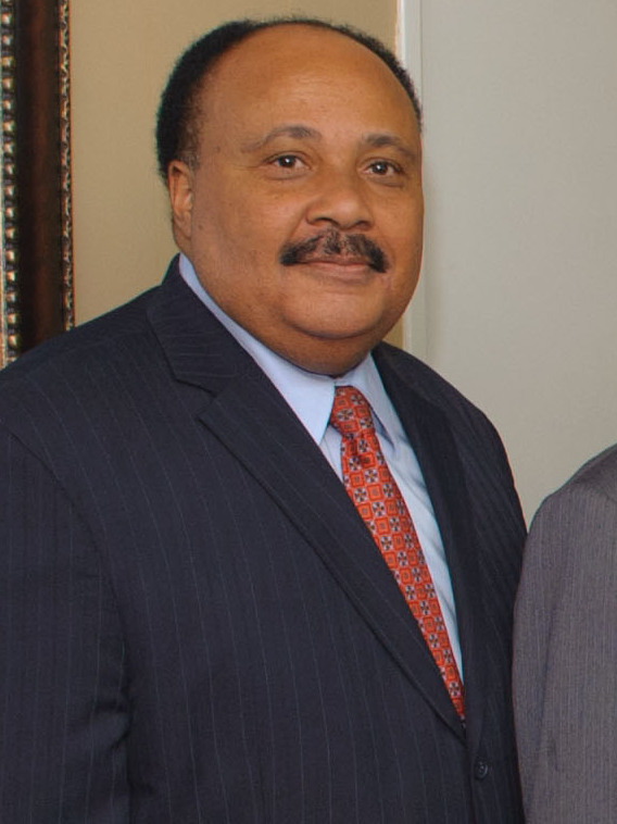 From left to right, Martin Luther King III, Rev. Al Sharpton, Congressman Emanuel Cleaver II, Rev. Jesse L. Jackson, Sr., Pastor Tony Scott from Brown Chapel AME US EPA photo by Eric Vance